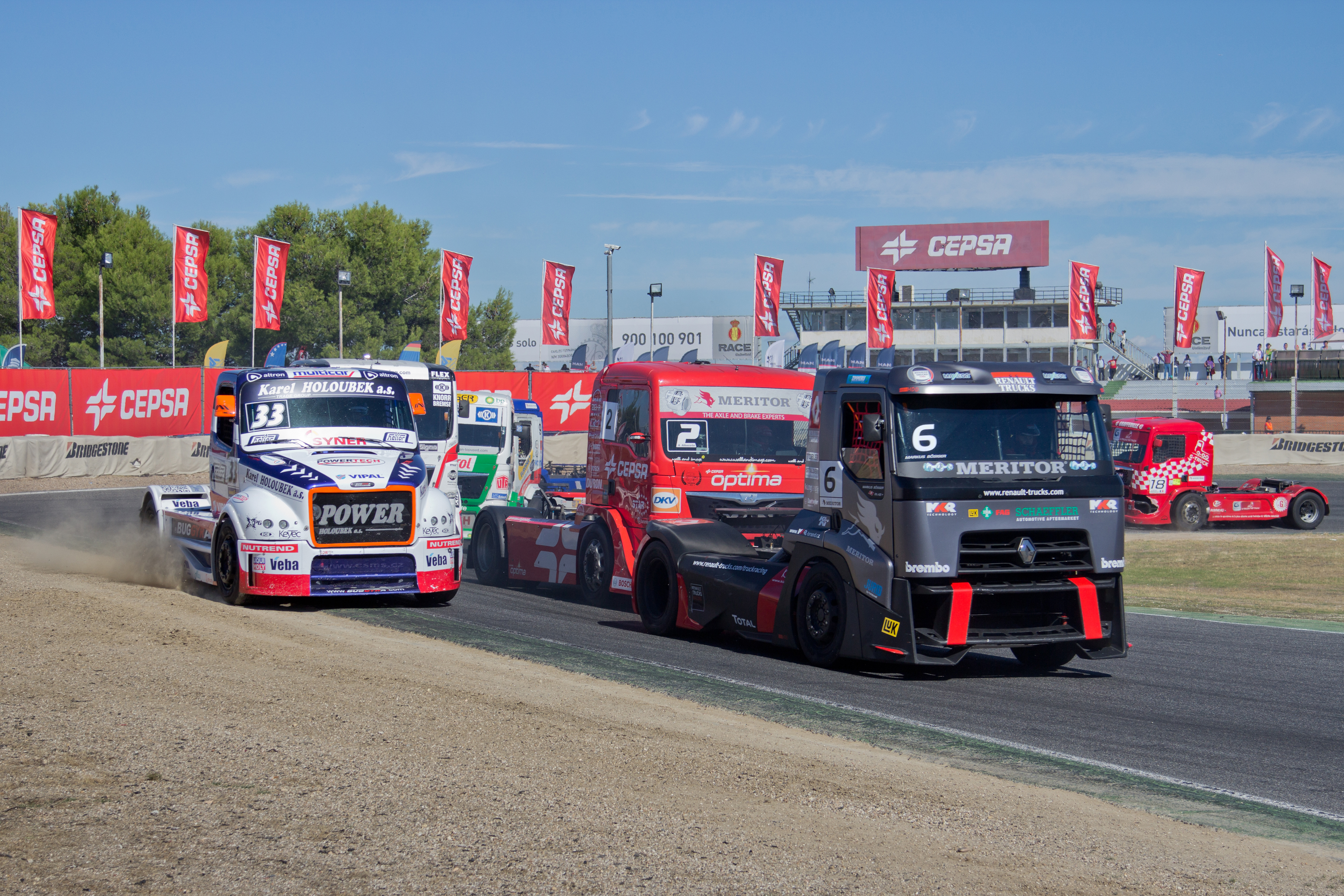 Spain Truck GP 2013, Jarama Circuit.